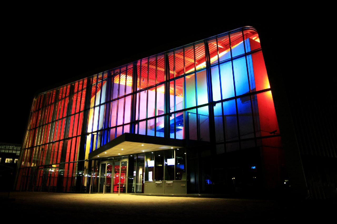 own work